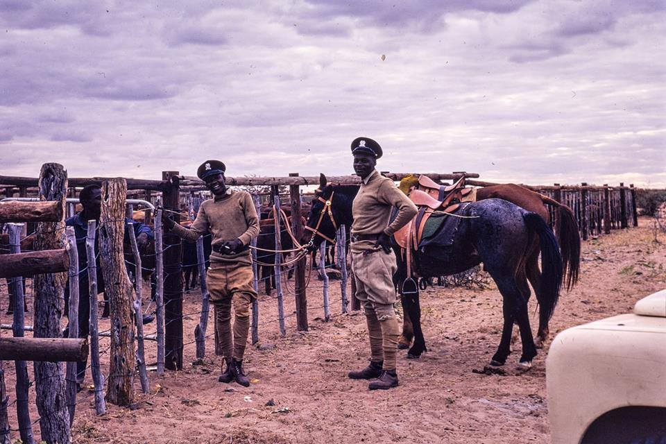 The Botswana police service used horses in the past.